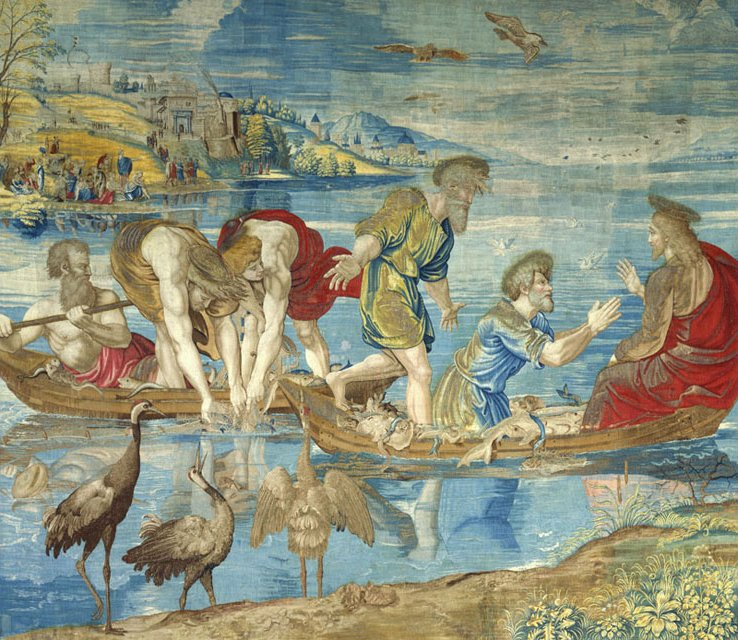 The Miraculous Draught of Fishes by Raphael, Vatican Museums